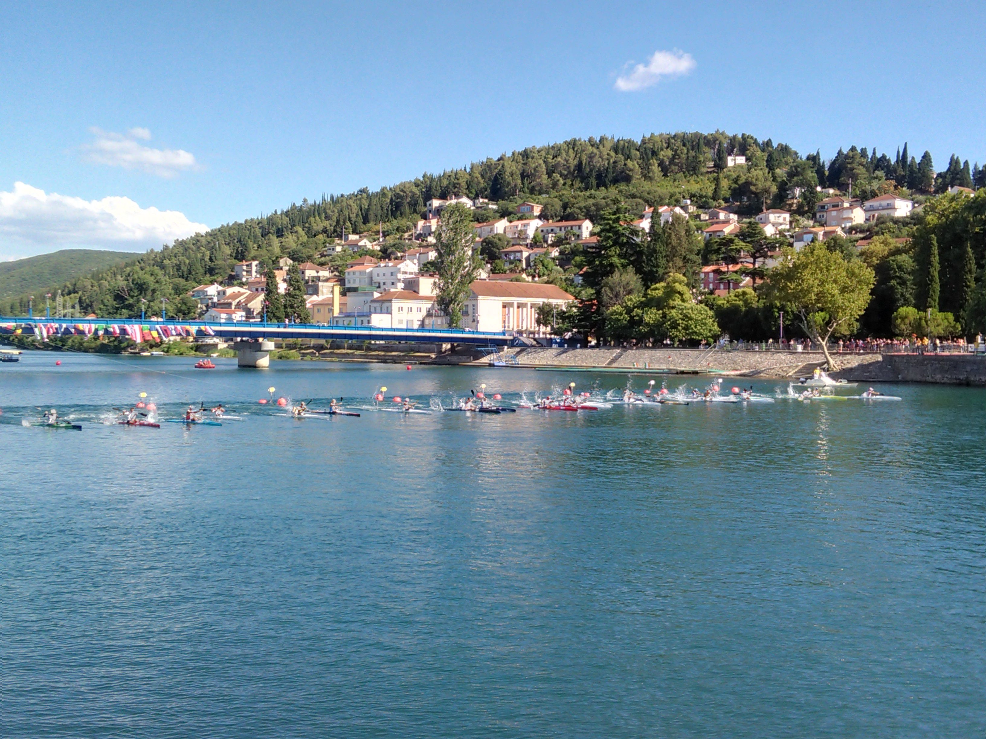 Canoe Marathon European Championships, Metkovic 2018, K1 men race